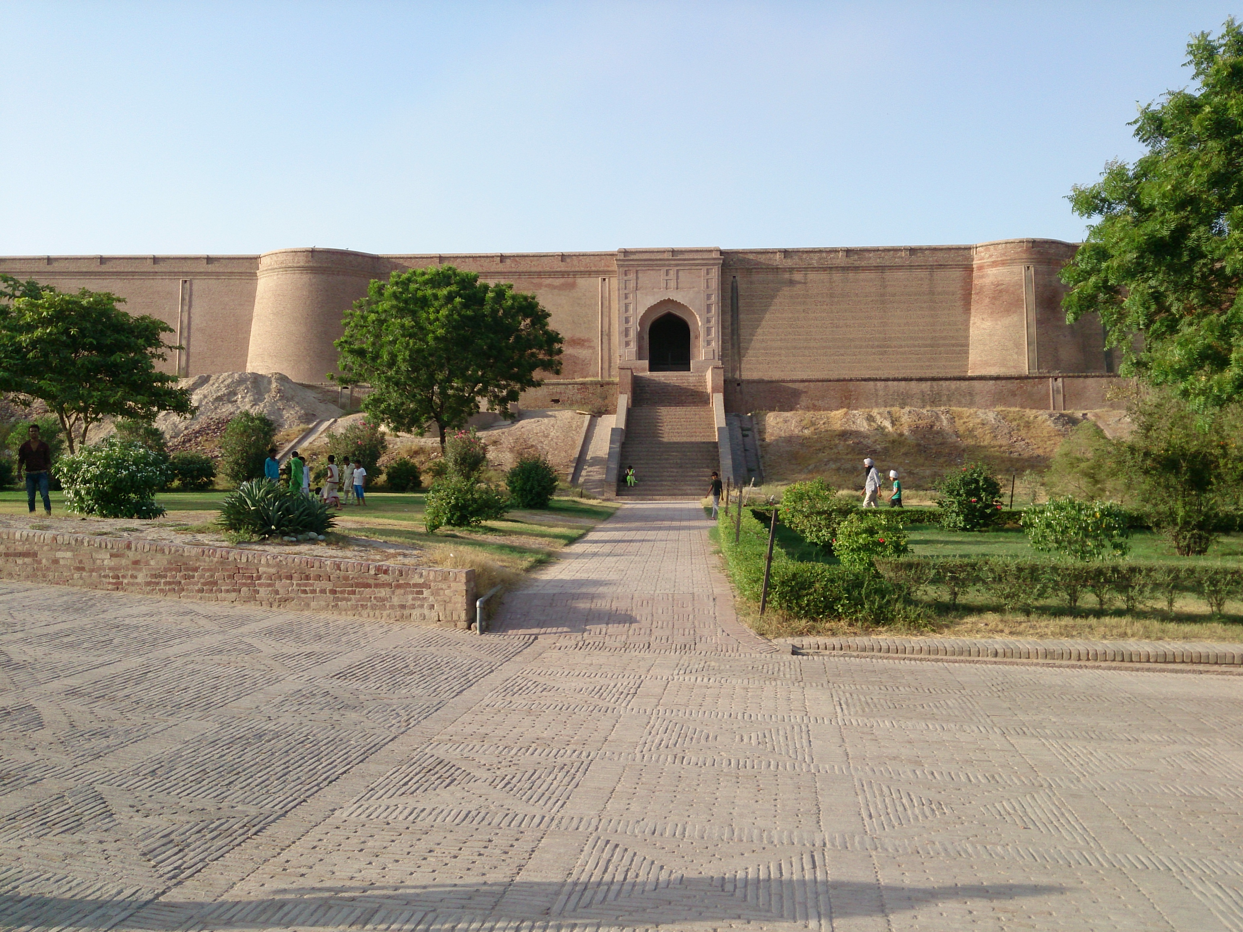 Qila Mubarak in 2015